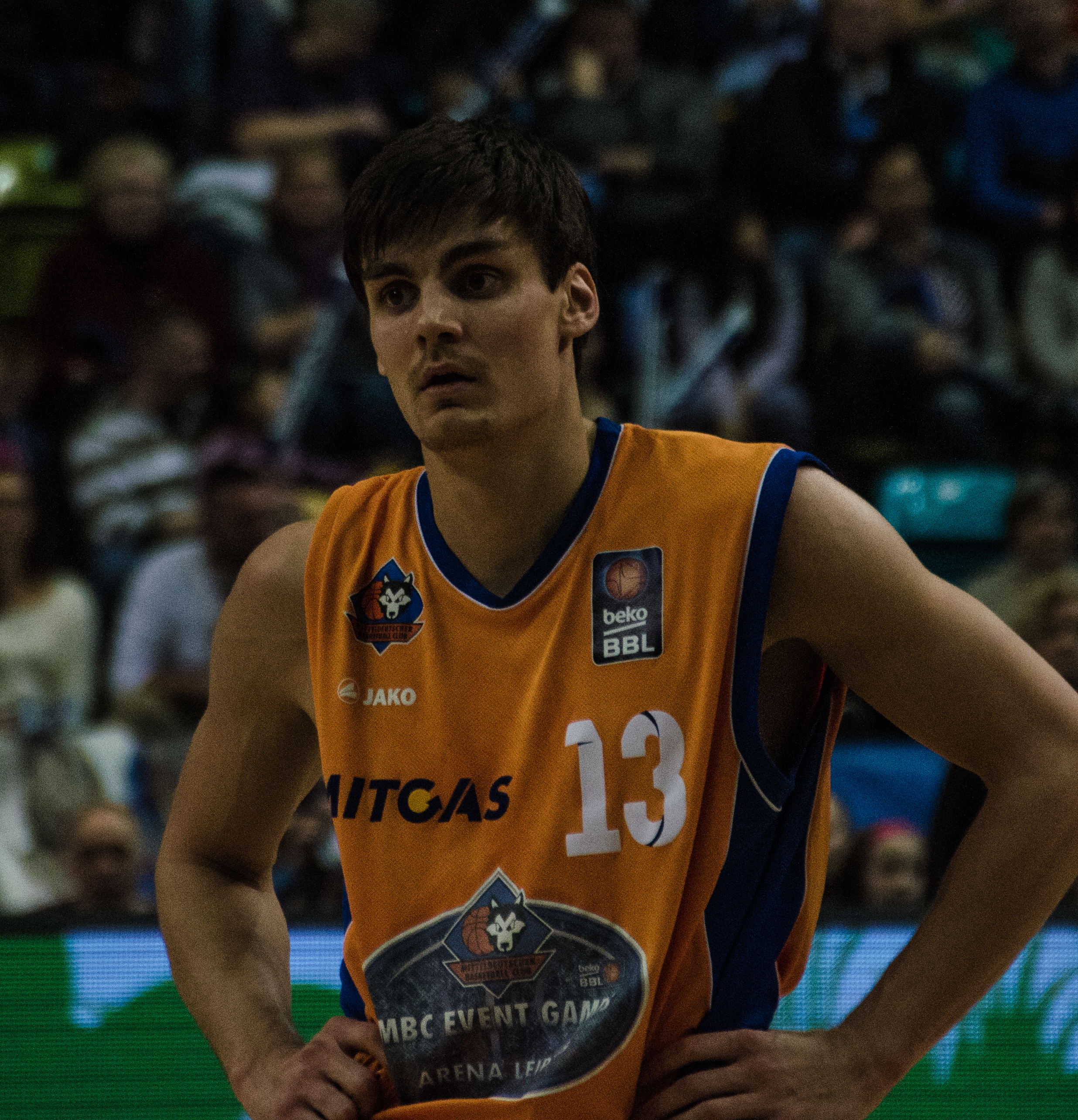 Hördur Vilhjalmsson playing for Mitteldeutscher BC vs Fraport Skyliners on 1 March 2015